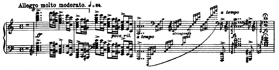 Part 1 of the Piano Concerto by Grieg; opening of the first part (piano)